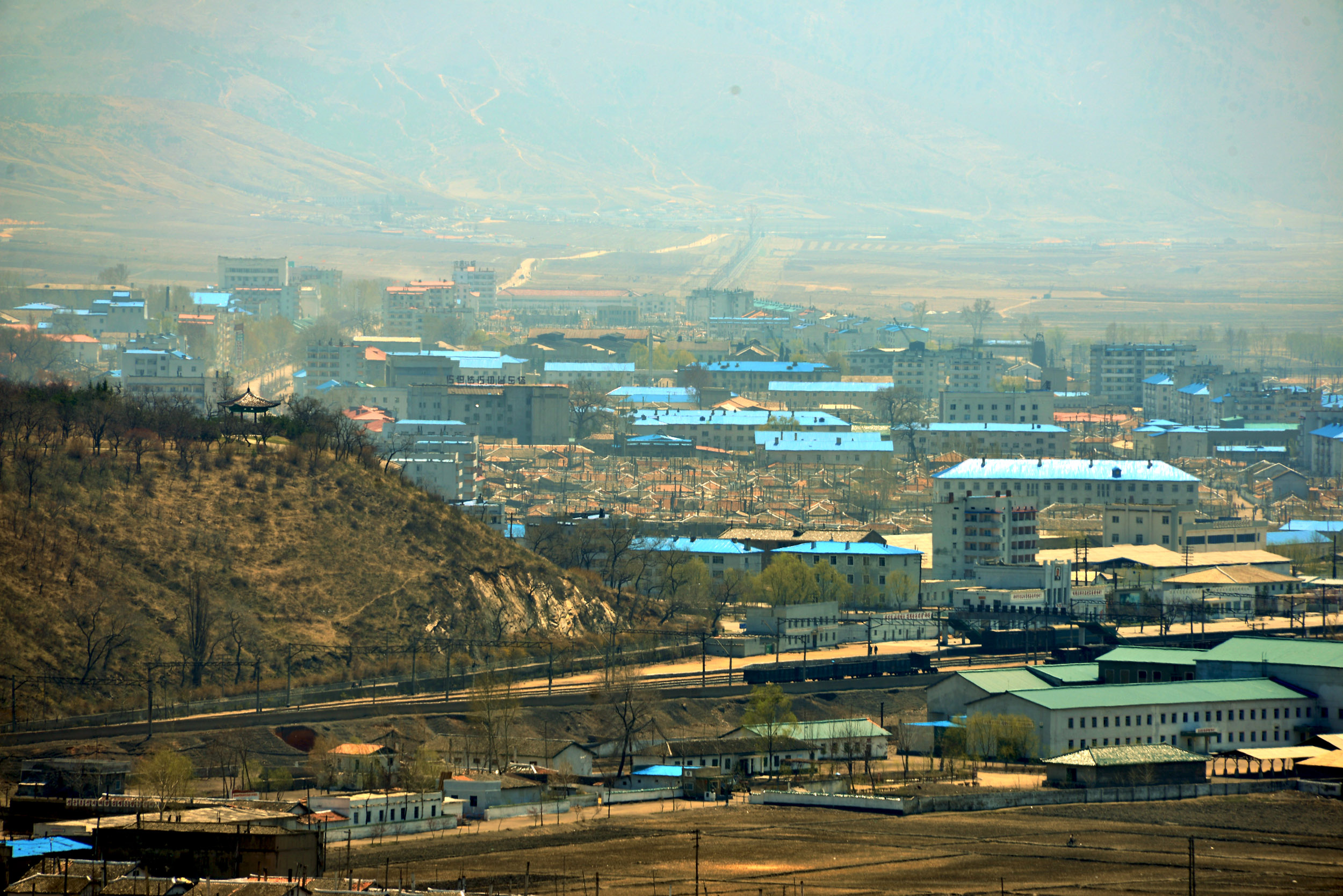 巡道工出品 photo by Xundaogong——会宁市区和会宁火车站 Hoeryŏng-si and Hoeryŏng railway station